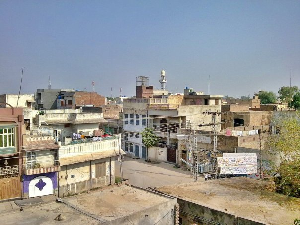 View from Mohalla Sadhu Chowk.